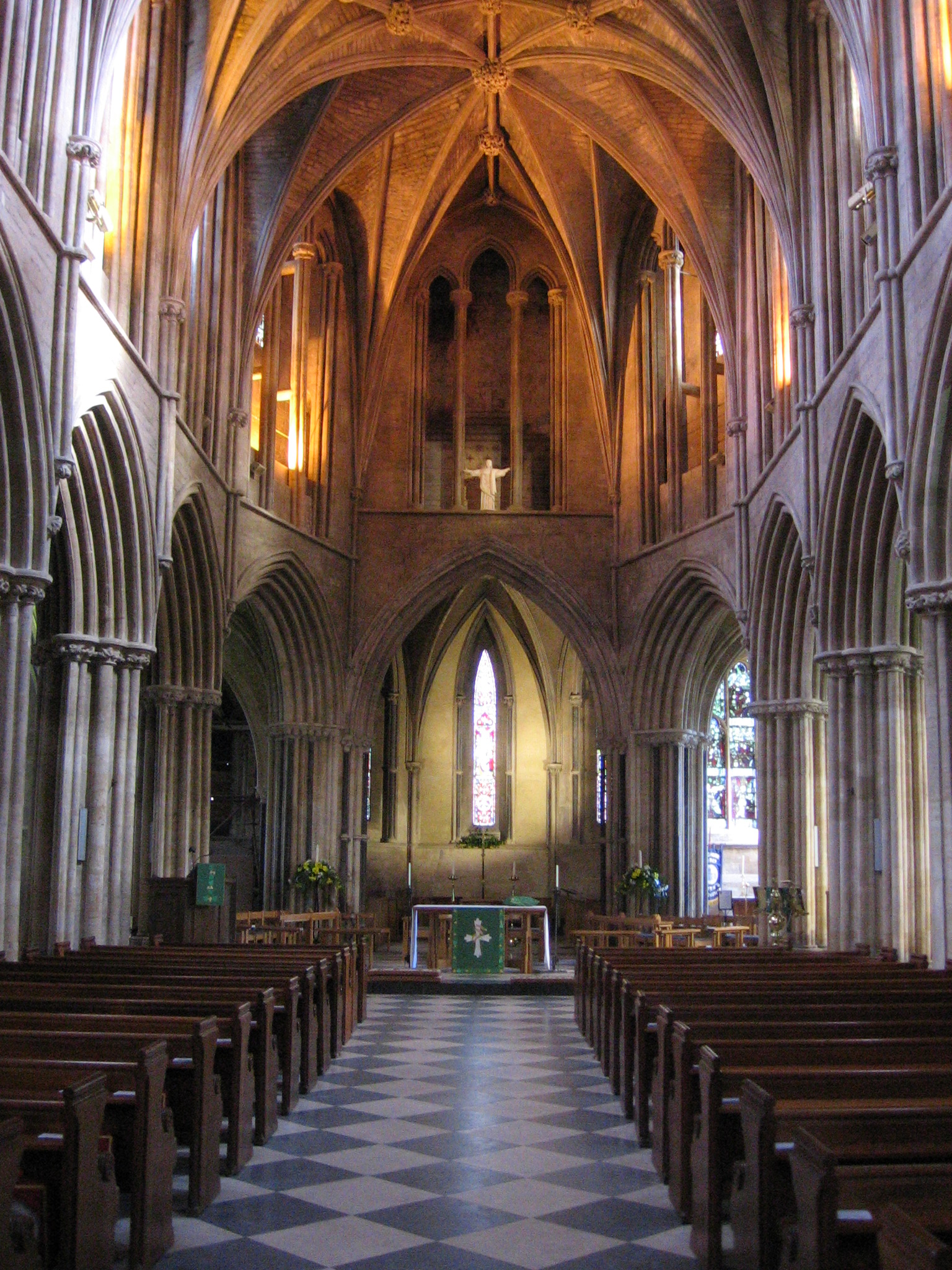 The nave, looking towards the high altar at Pershore Abbey, Worcestershire. Author Peter Moore, self-made image.